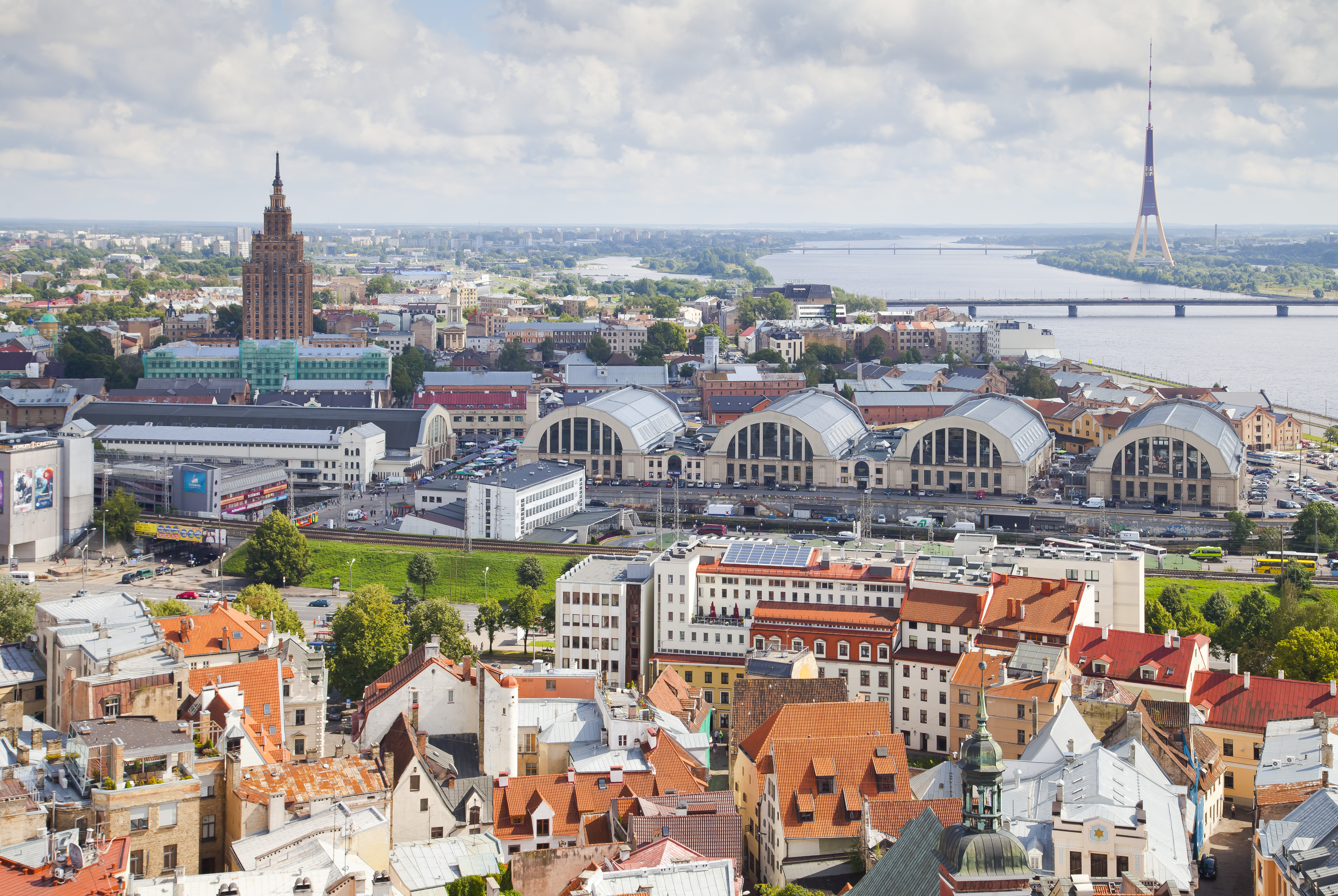 View of Riga from St. Peter's church, Latvia